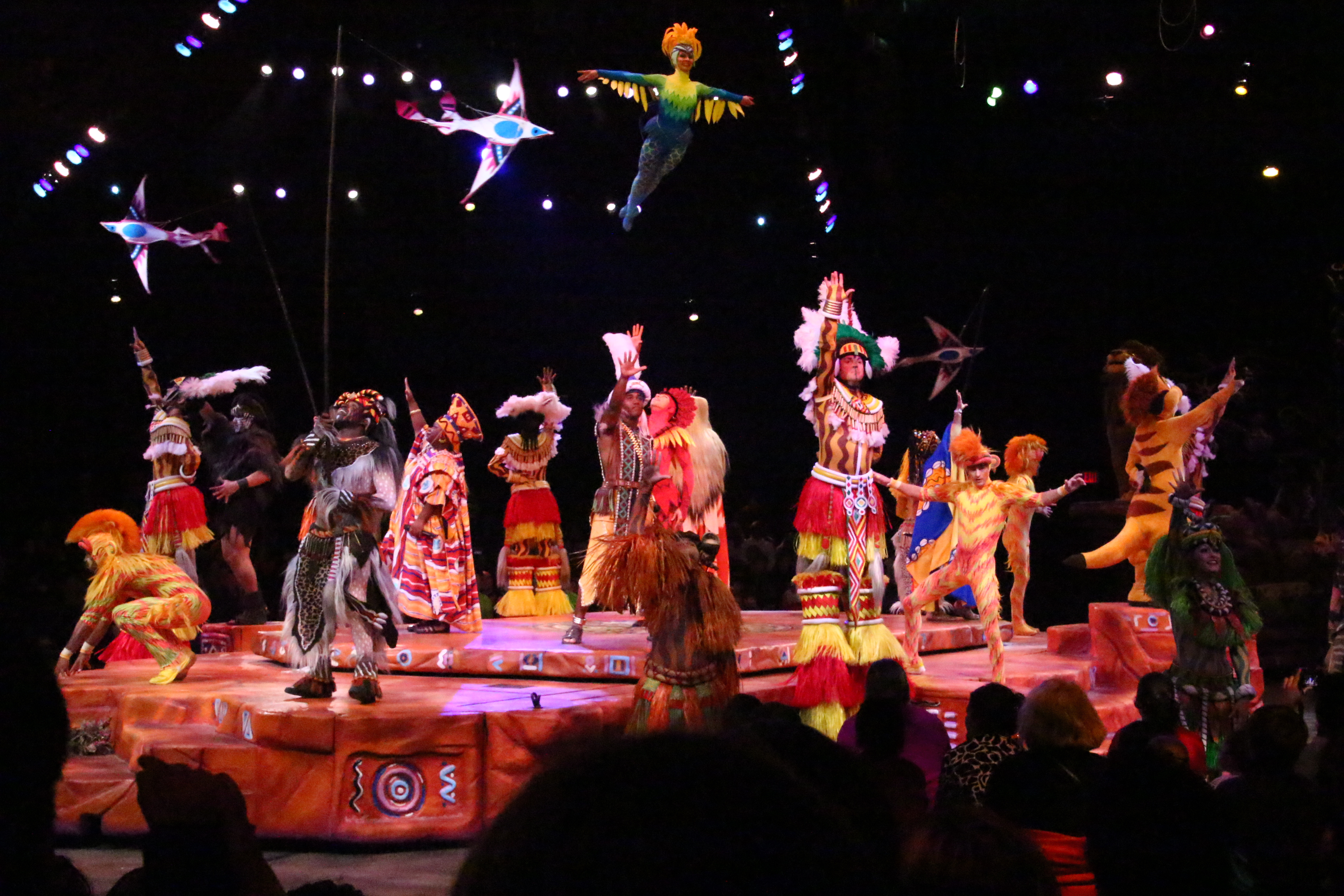 Characters in the finale of the Festival of the Lion King musical at Disney's Animal Kingdom in Florida.